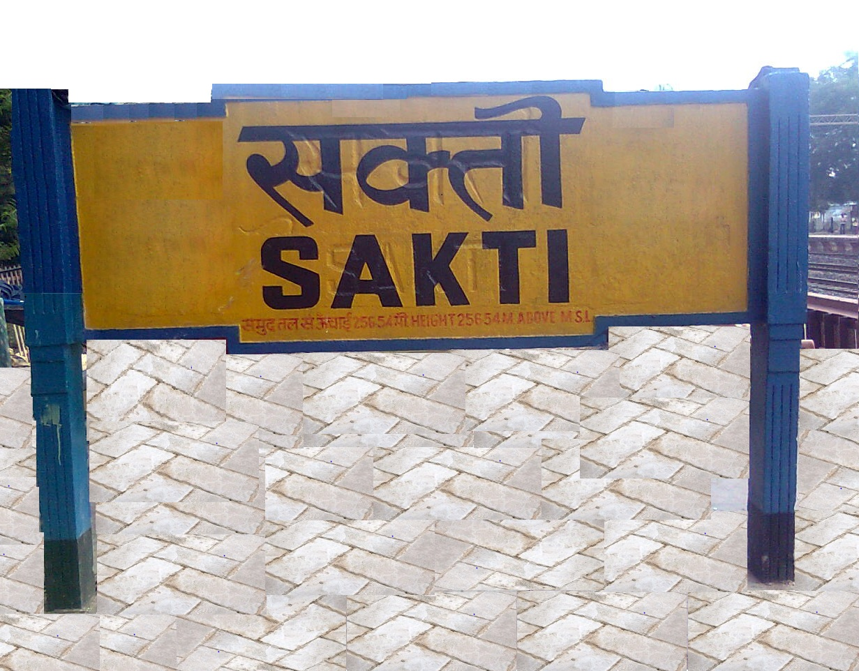 Sakti